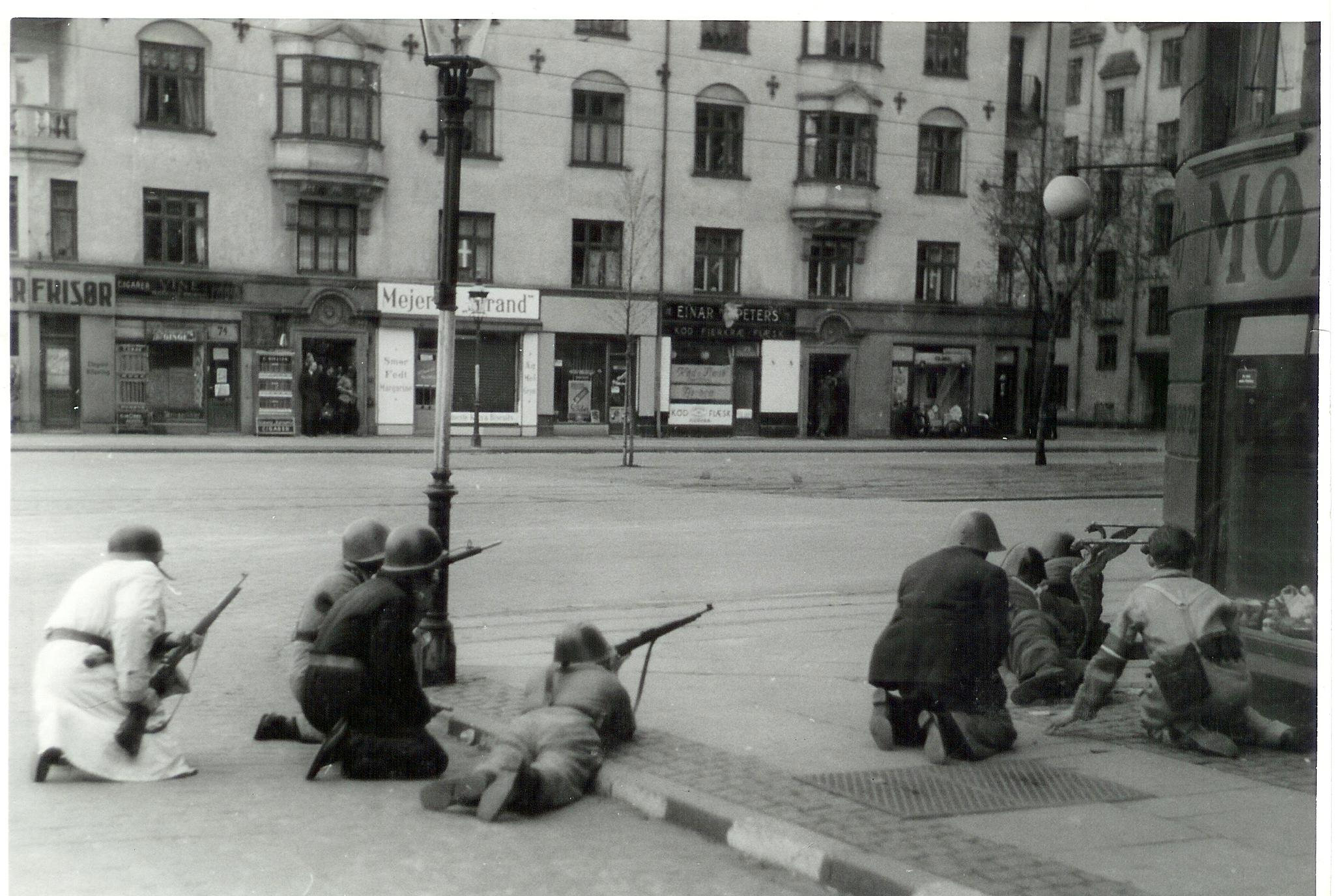 More images from The Museum of Danish Resistance